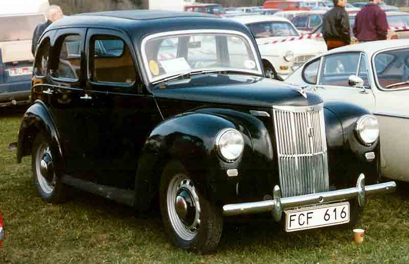 Ford Prefect 4-Door Saloon